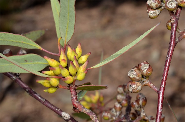 Flower buds and fruit of Eucalyptus socialis subsp. socialis in the Flinders Ranges, near the Wirrealpa - Blinman road, South Australia